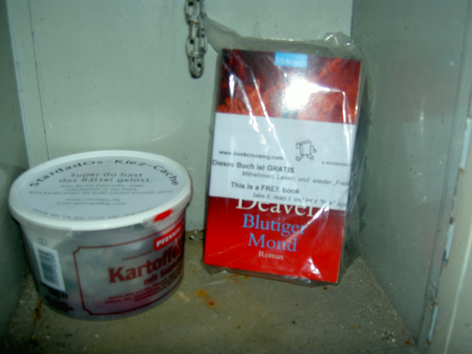 Motiv: Bookcrossing & Geocaching passen Gut zusammen! They fit each other! Webseite: oder Galarie